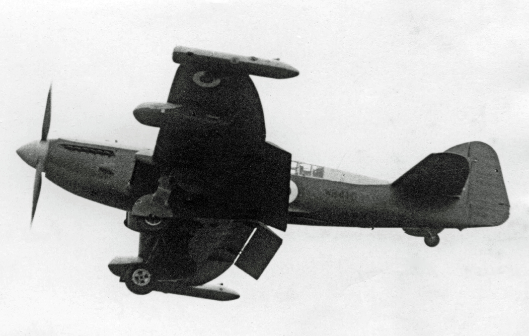 Fairey Firefly U.9 drone aircraft at Manchester (Ringway) Airport